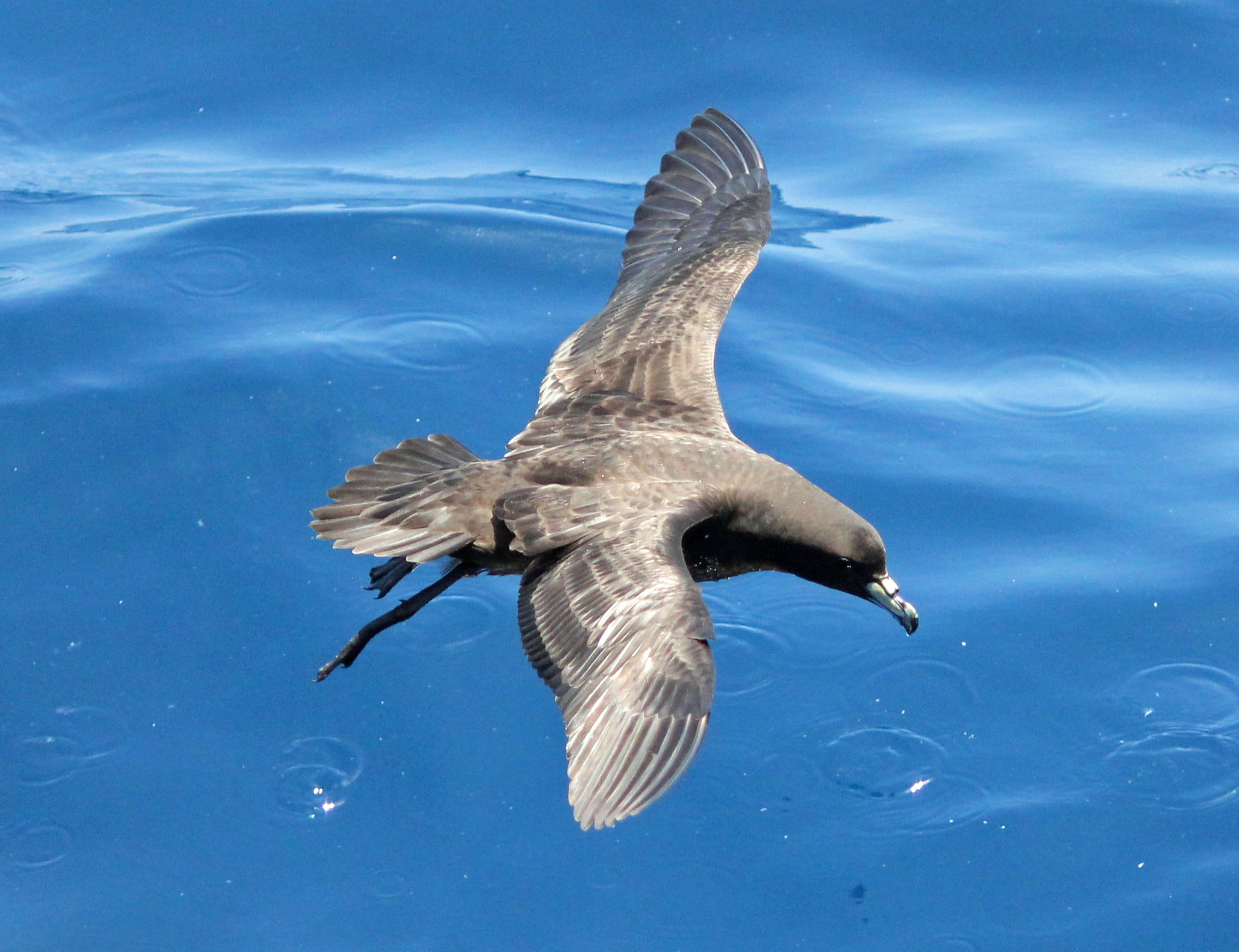 Black Petrel (Procellaria parkinsoni) is also known as Parkinson's Petrel.